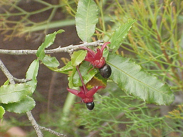 Species: Ochna serrulata Family: Ochnaceae Image No. 3